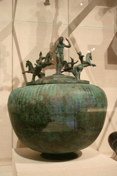 Metropolitan Museum of Art # 40.11.3 A,B